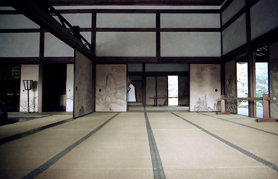 Ryoan-Ji, Room with sliding doors